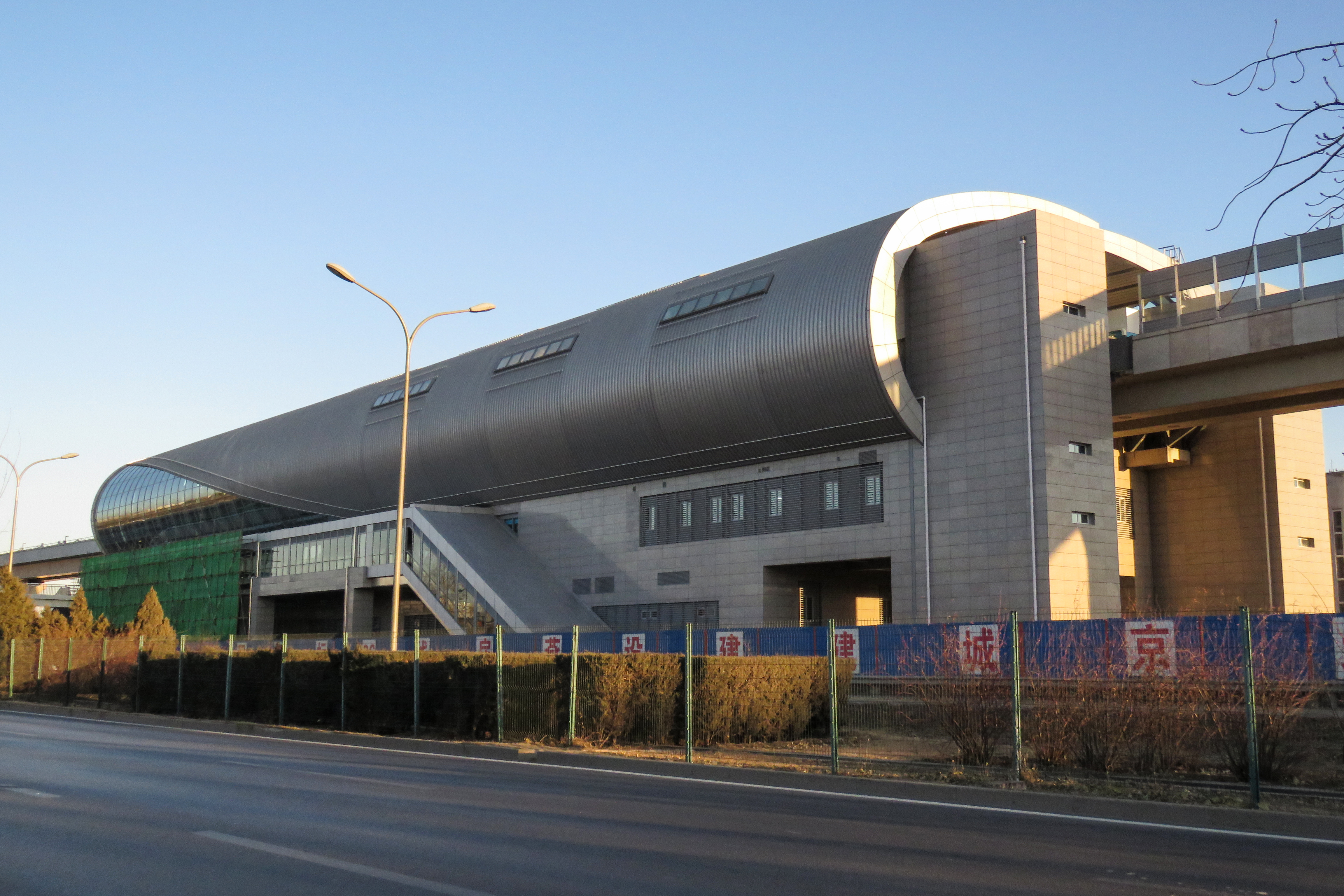 The tallest metro station in Beijing... but unable to get to the south. The station flyover is also under construction, will it be completed in 6 days?